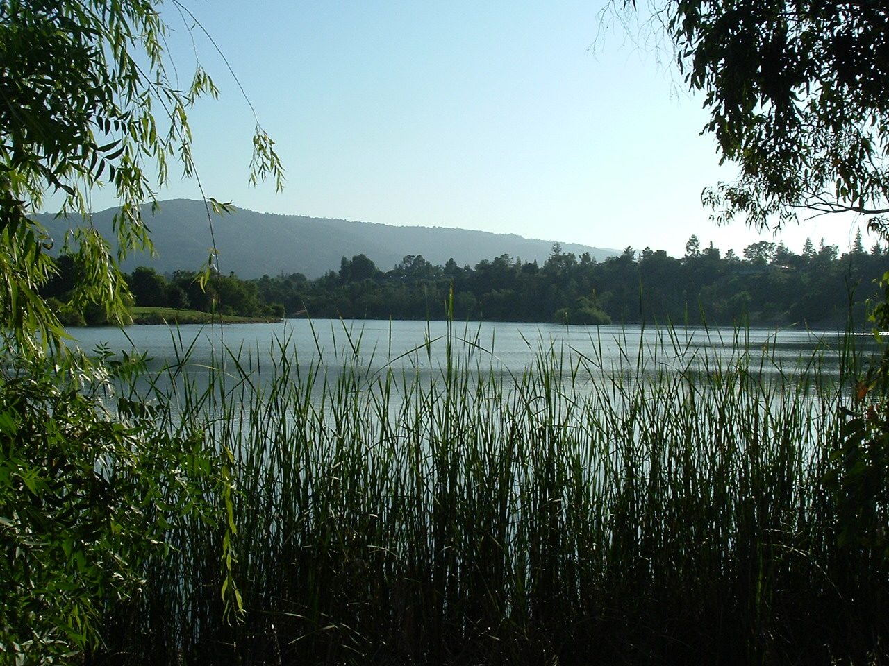 Vasona Reservoir at Vasona Park. Los Gatos. taken by User:Mike24 on 6/24/06